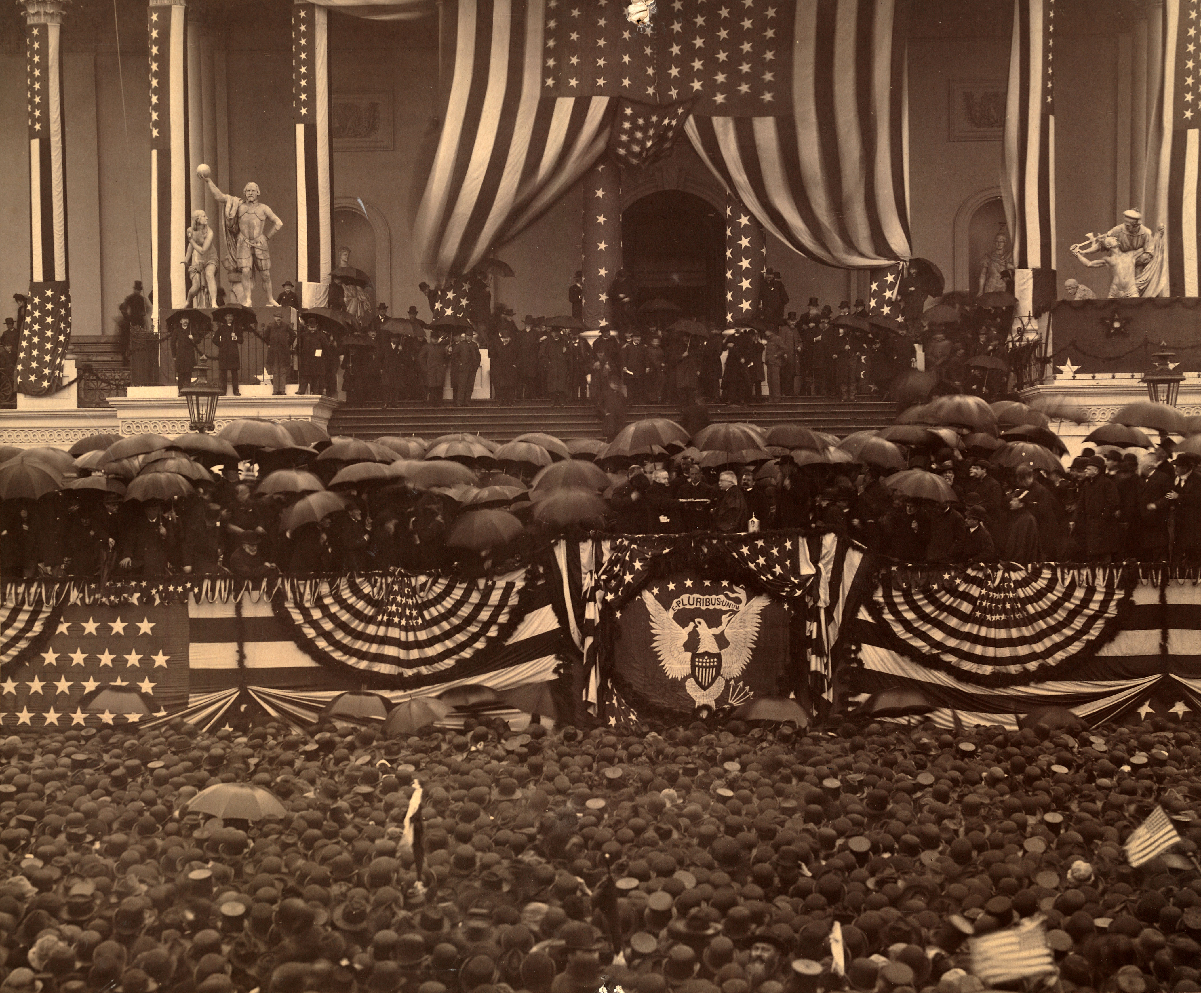 Chief Justice Melville W. Fuller administering the oath of office to Benjamin Harrison on the east portico of the United States Capitol during a rainy Inauguration. Harrison's opponent in the 1888 Presidential Election, Grover Cleveland, held the umbrella for Harrison during the oath.